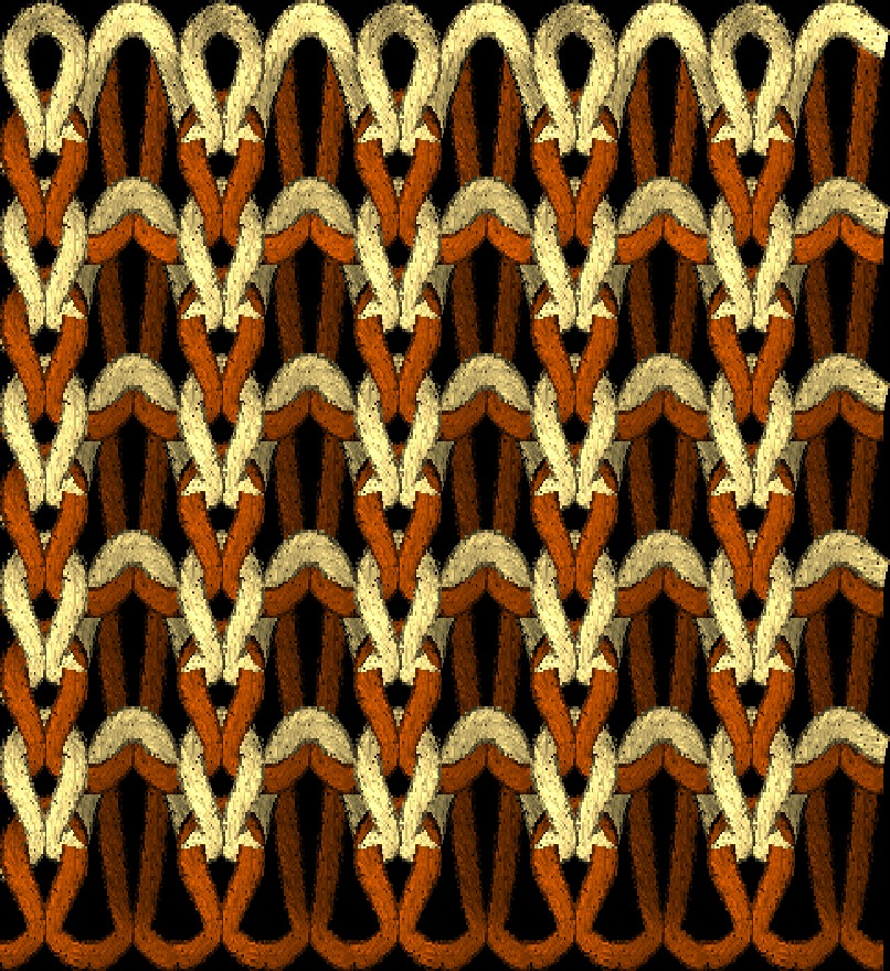 حسام هطلاني